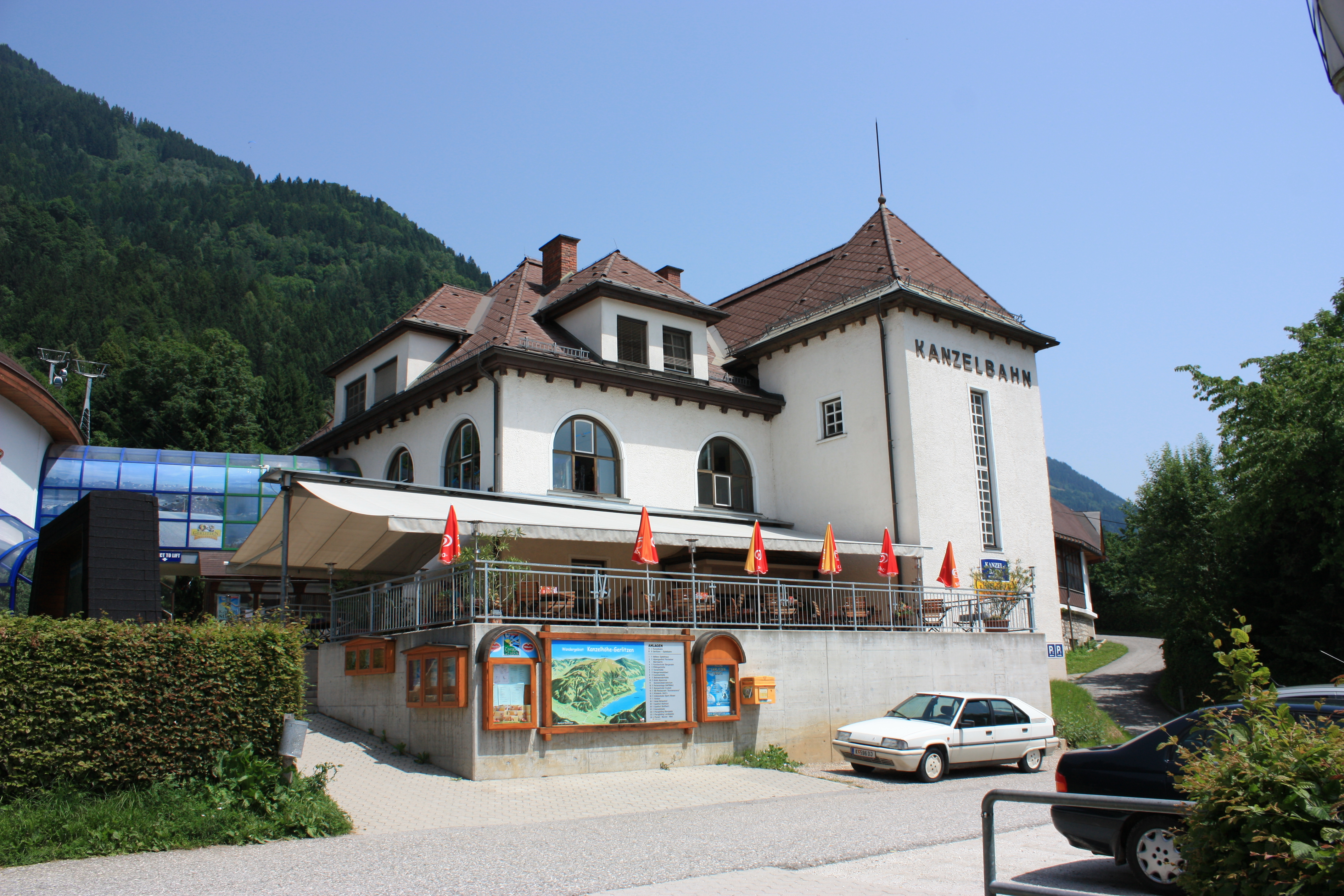 Kanzelbahn (Gondola lift) Village:Annenheim Community:Treffen District:Villach-Land State:Carinthia Country:Austria